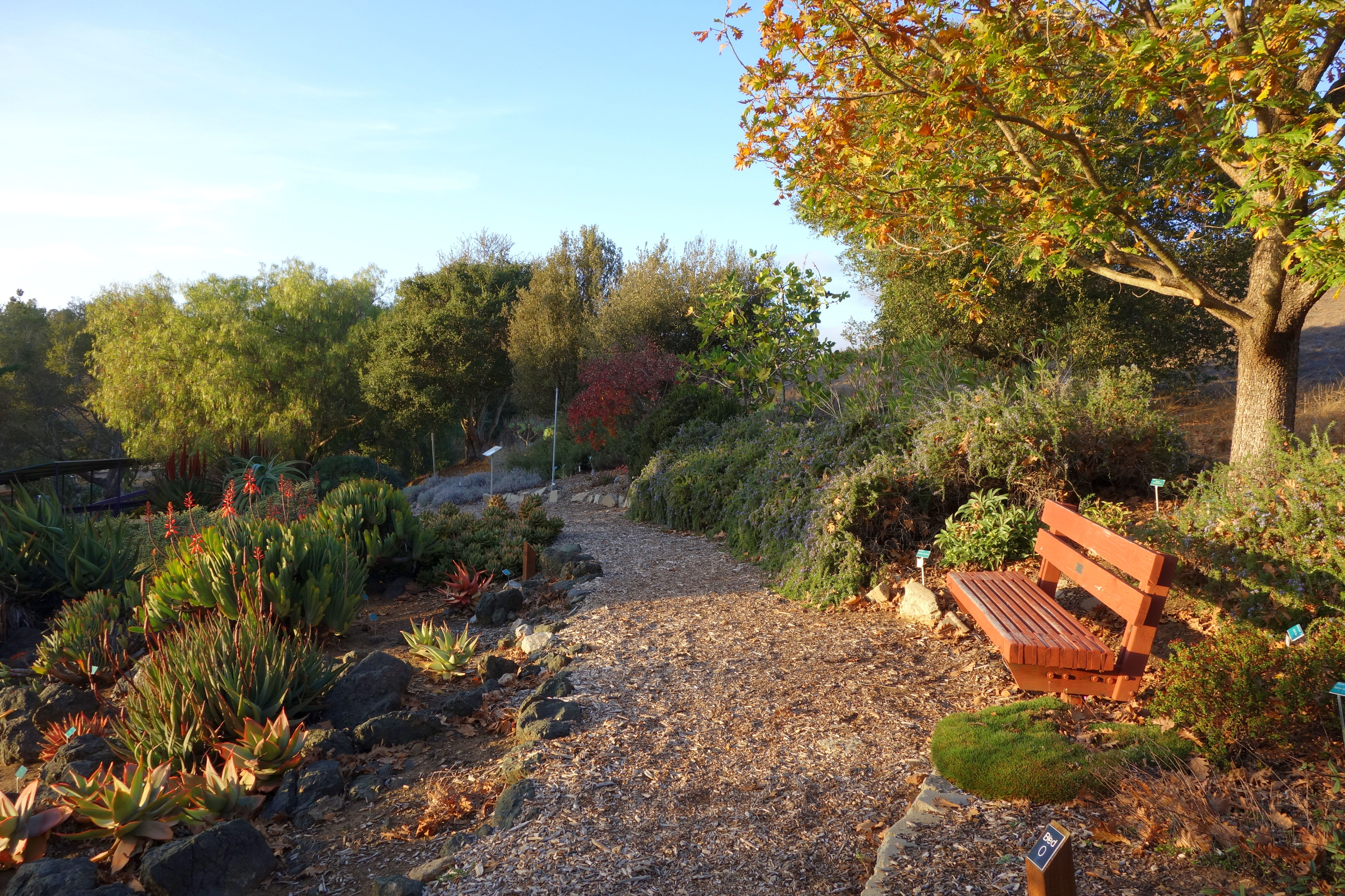 San Luis Obispo Botanical Garden - in El Chorro Regional Park, San Luis Obispo, California, USA.